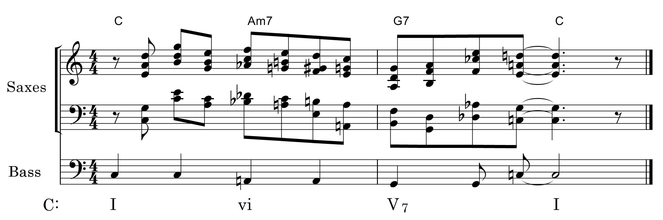 5 voice sectional harmony in open voicing.